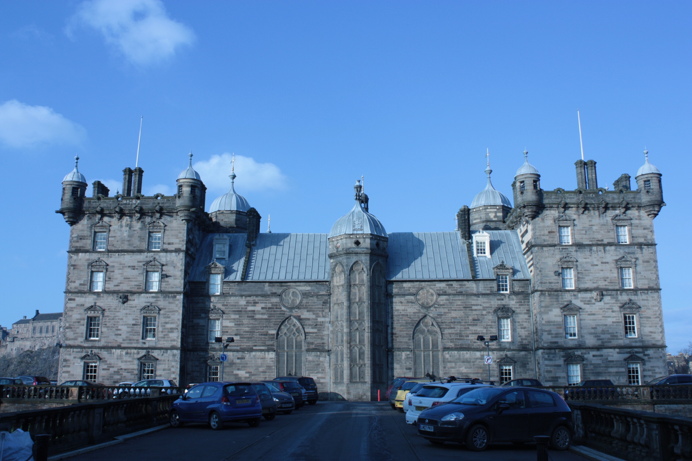 Main south facade of George Heriot's School Edinburgh as seen from Lauriston Place entrance